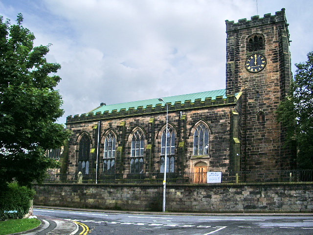 The Parish Church of St Andrews, Leyland